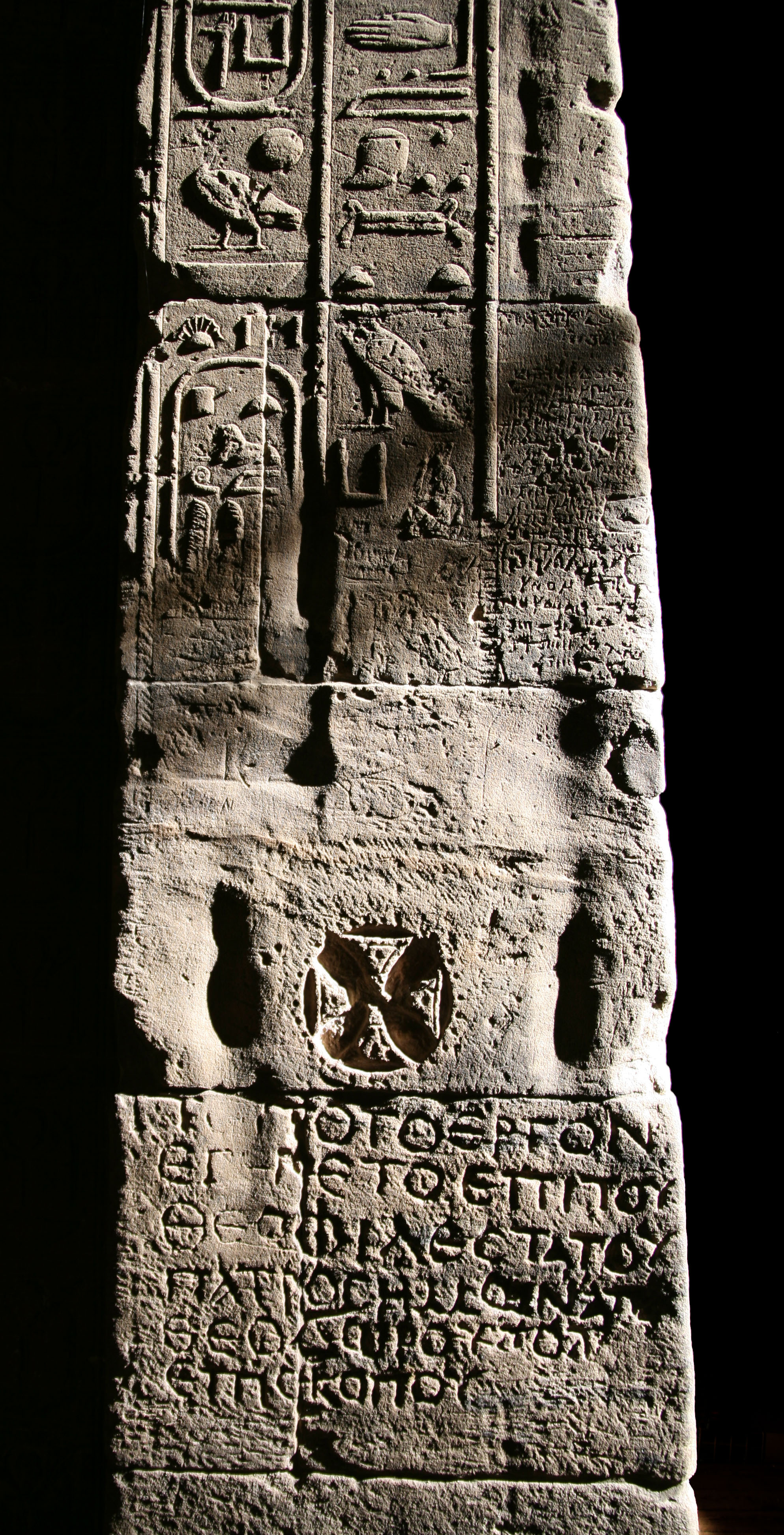 Coptic cross and Greek inscription on older relief, Temple of Isis, Philae, Egypt.